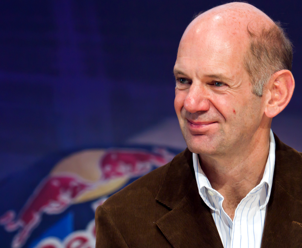 Adrian Newey (the chief technical officer of Red Bull Racing) at Nissan Global Headquarters Gallery.